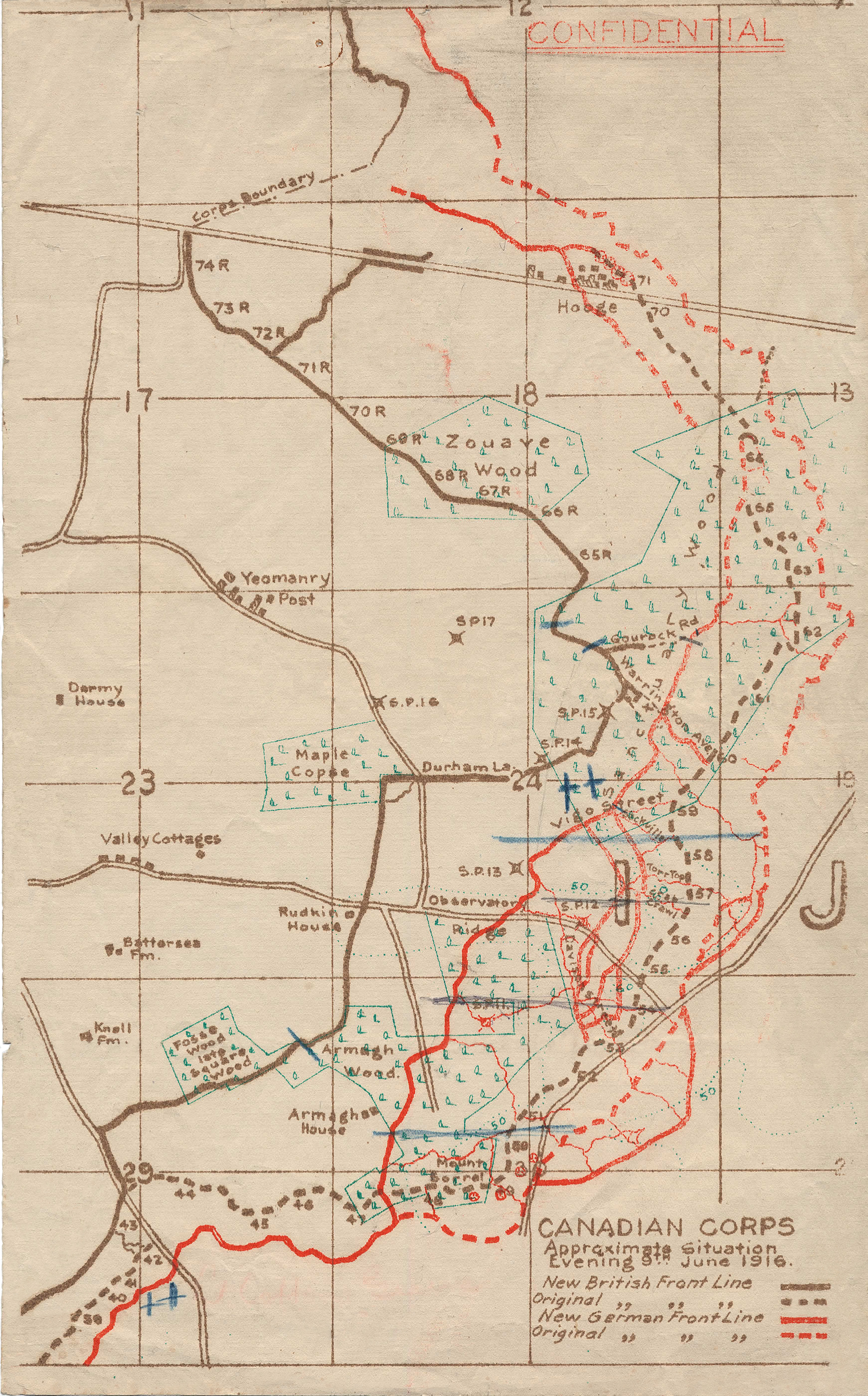 This map illustrates the British/Canadian positions (in brown) and the German lines (in red) on 4 June 1916, during the Battle of Mount Sorrel. The Canadians have been driven from several strong points, including Hooge north), Mount Sorrel itself (south), and most of Observatory Ridge (centre).